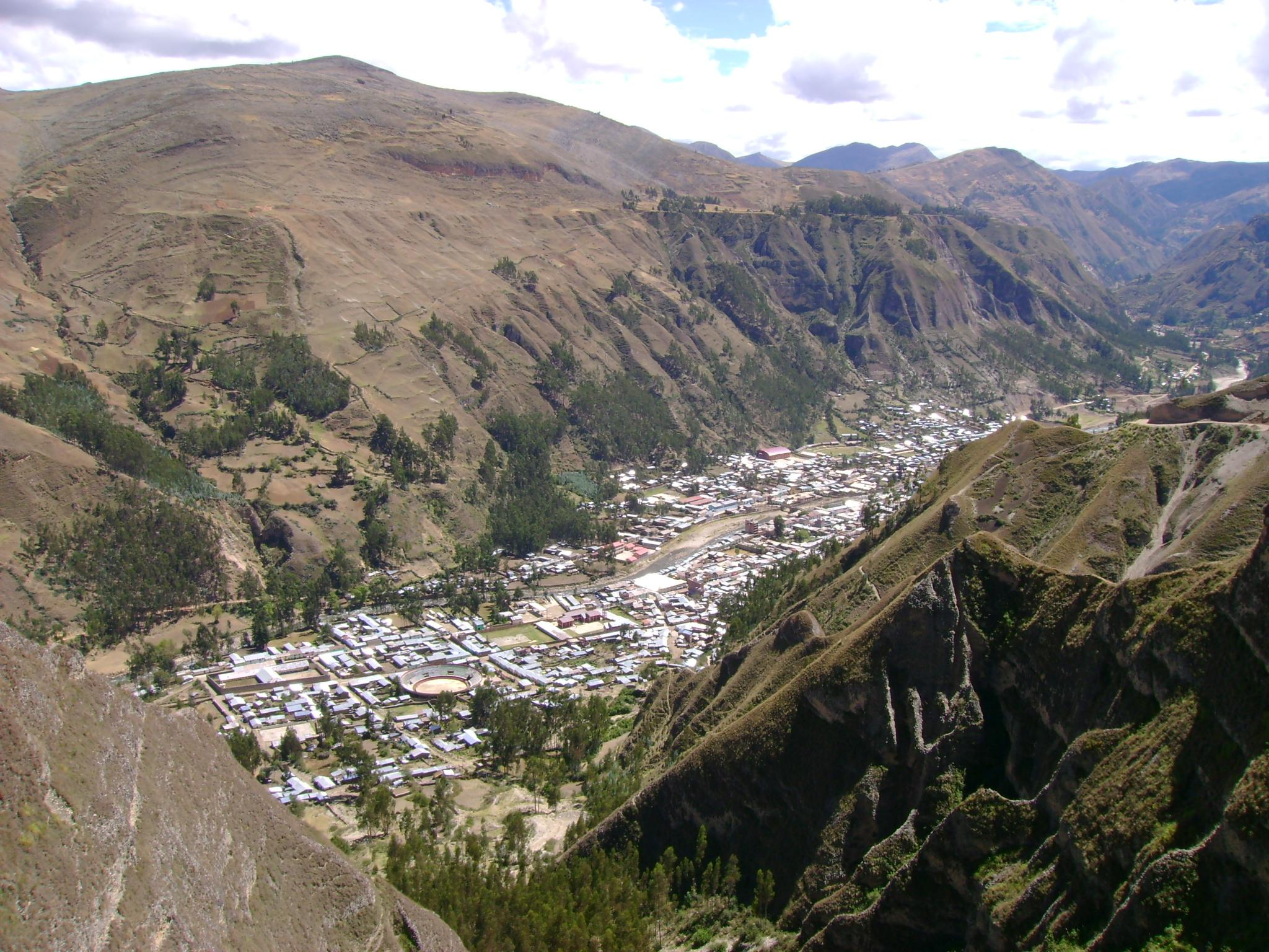 The Union - in the valley Ripan Vizcarra.